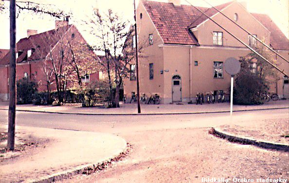 Houses in Örnsro, Örebro, Sweden